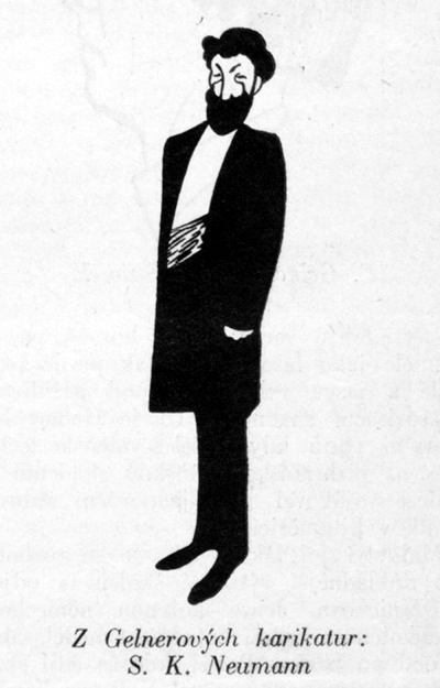 Stanislav Kostka Neumann, Czech poet. Česky: Stanislav Kostka Neumann, český básník.